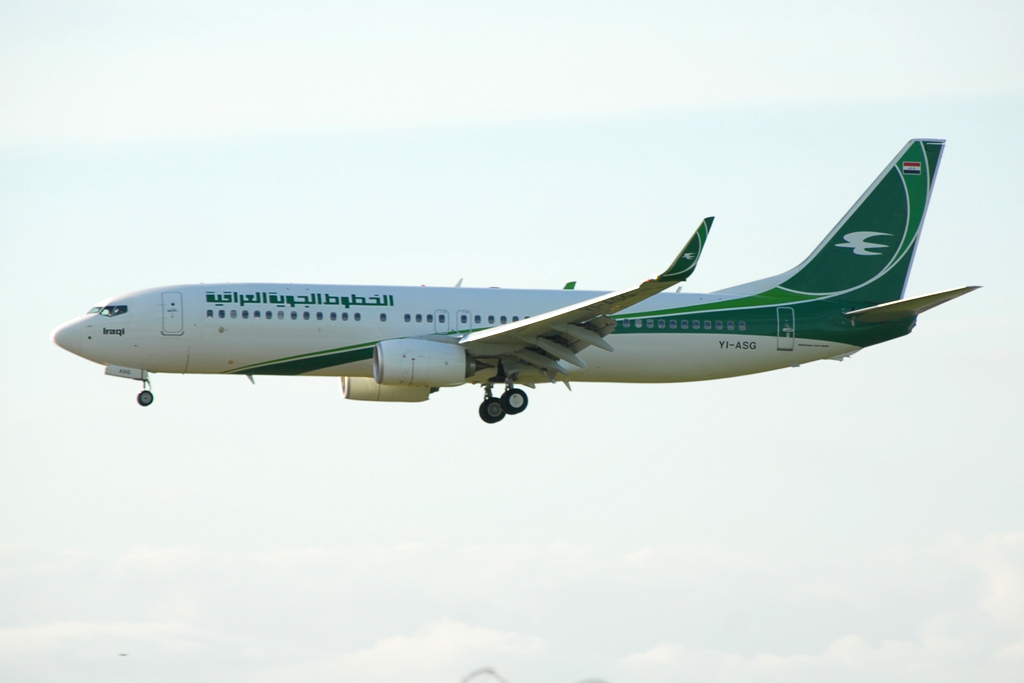 Iraqi Airways Boeing 737-81Z(WL)